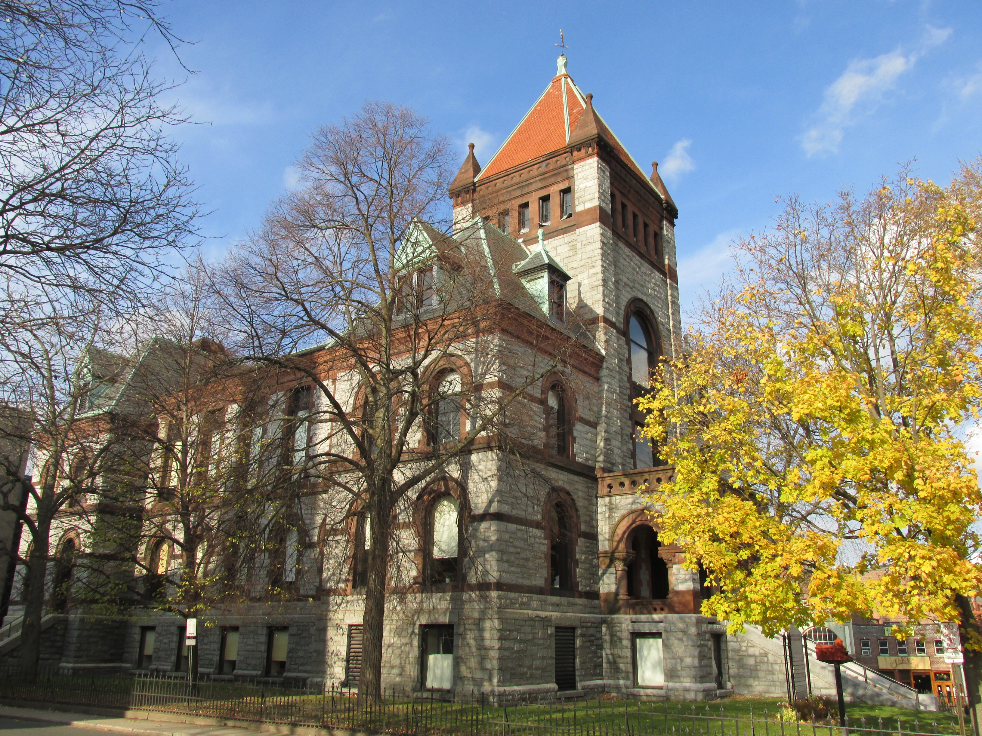 Old Hampshire County Courthouse, Northampton Massachusetts